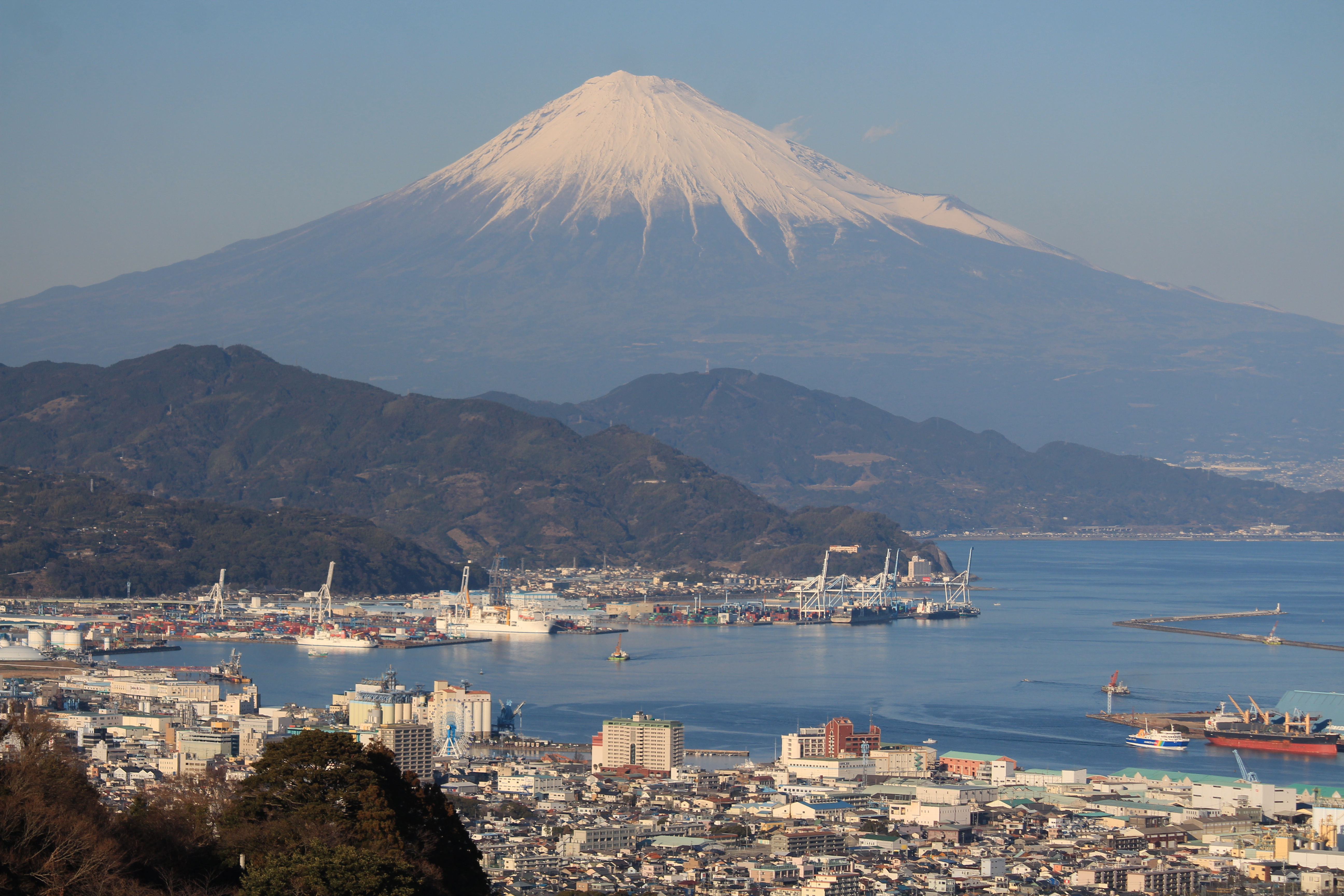 Port of Shimizu, Mount Hamaishi and Mount Fuji seen from Nihondaira in Shizuoka city, Shizuoka prefecture, Japan.